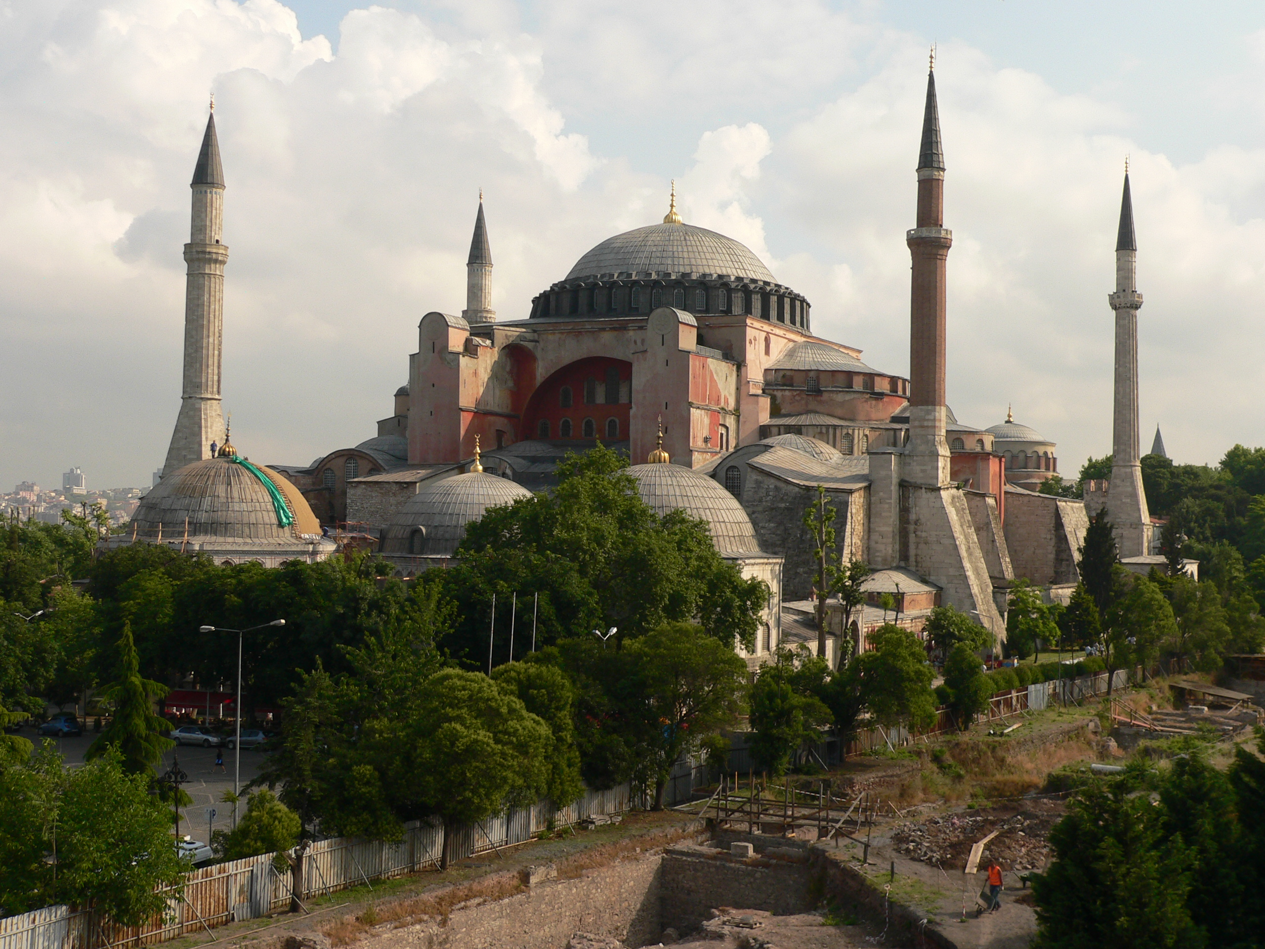 I took this in Istanbul in June 2006. It shows the Hagia Sophia Cathedral, built by Emperor Justinian in the 6th century AD. Today it is open to the public as a museum. In the foreground, excavations are taking place.